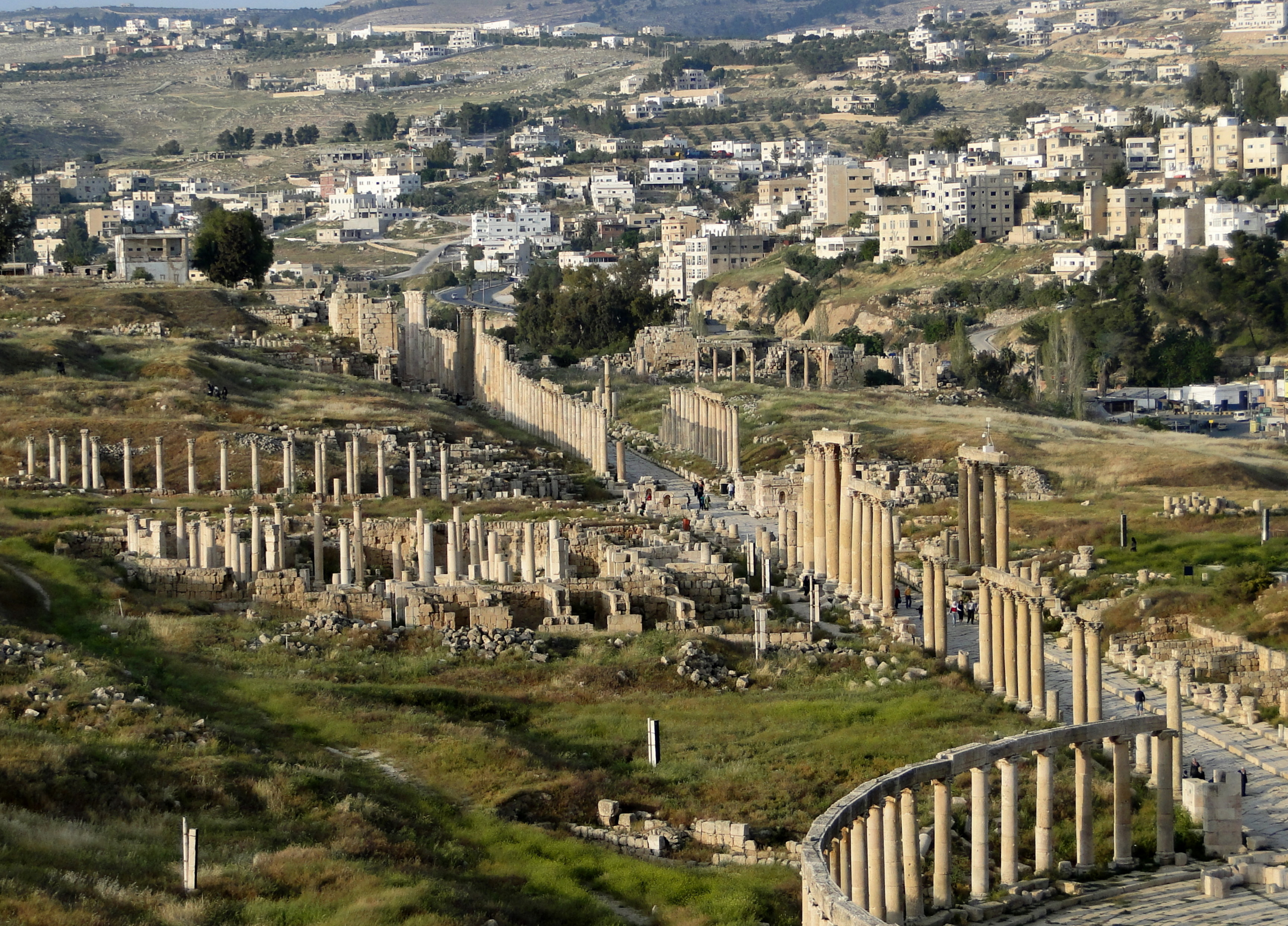 General view of the cardo maximus of Jerash, Jordan